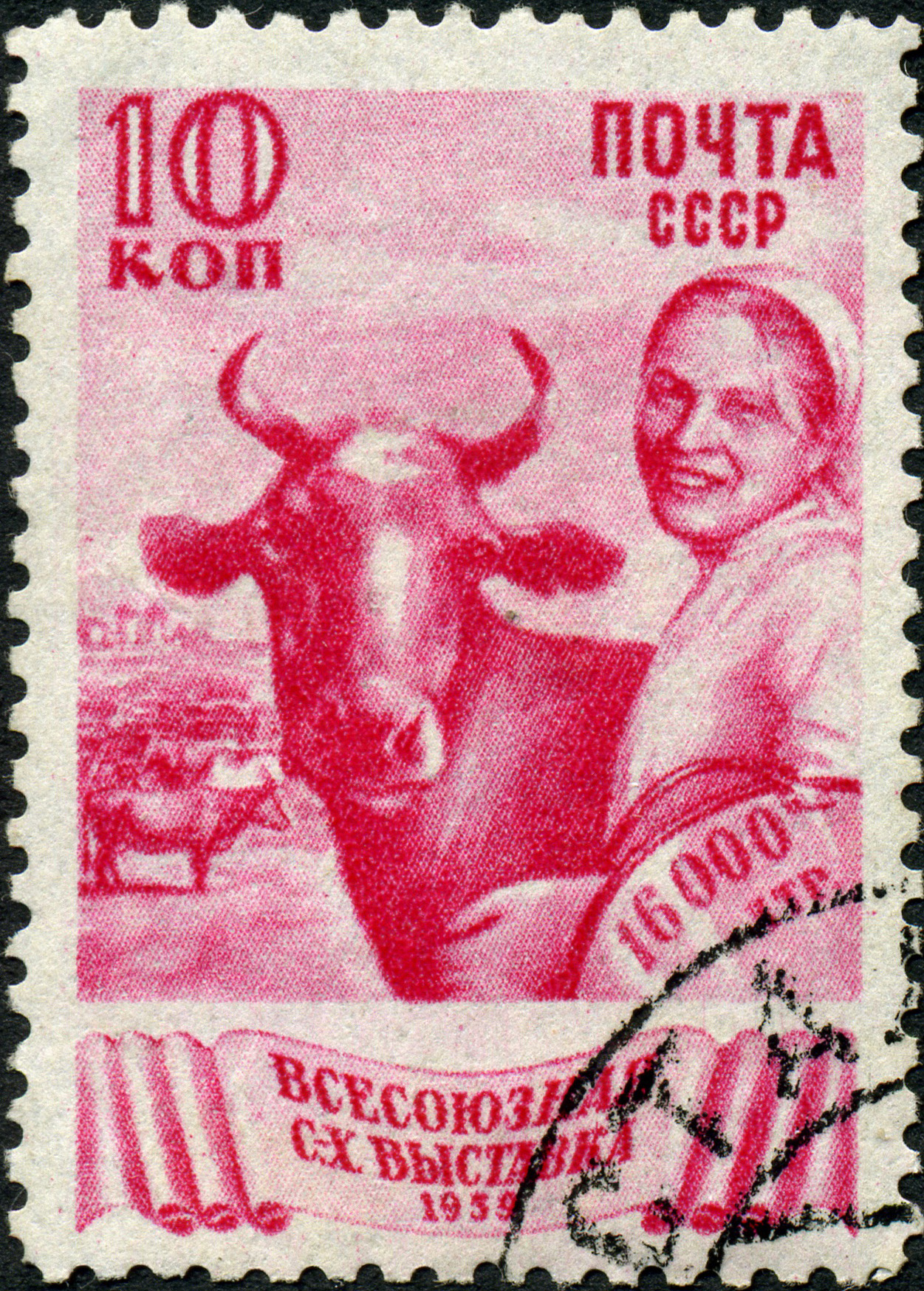 Stamp of the USSR 1939: Dairy farming. Series: The All-Union Agricultural Exhibition (VSKhV) in Moskow, USSR, "New in the Agriculture".